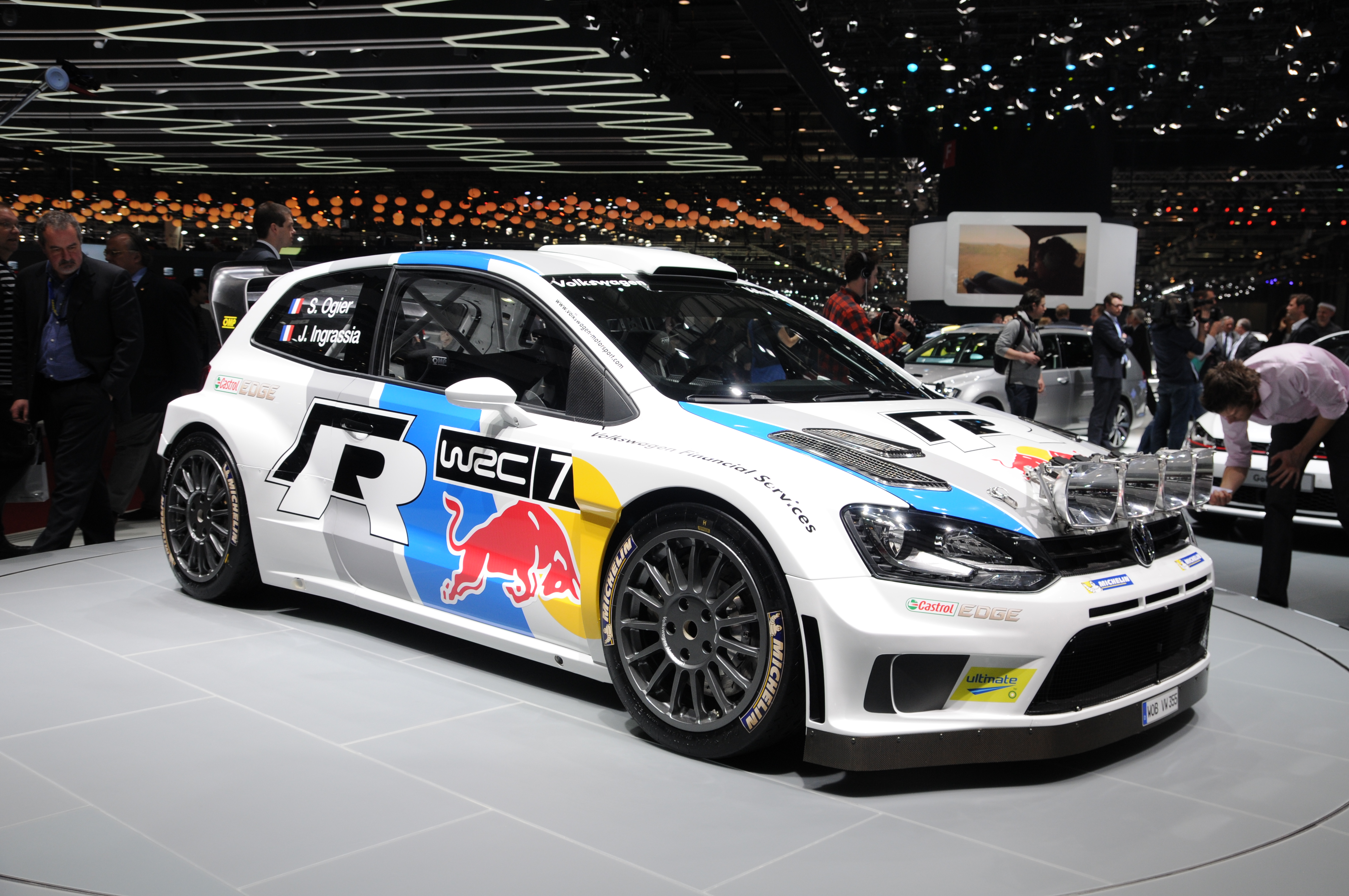 Geneva Motor Show 2013 (photos taken on the first press day)